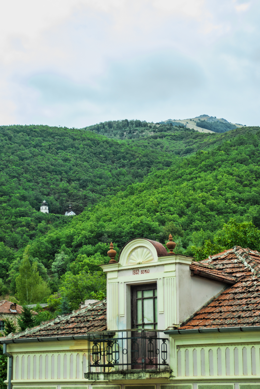 View towards Baltan Mountain from the village of Ljubojno